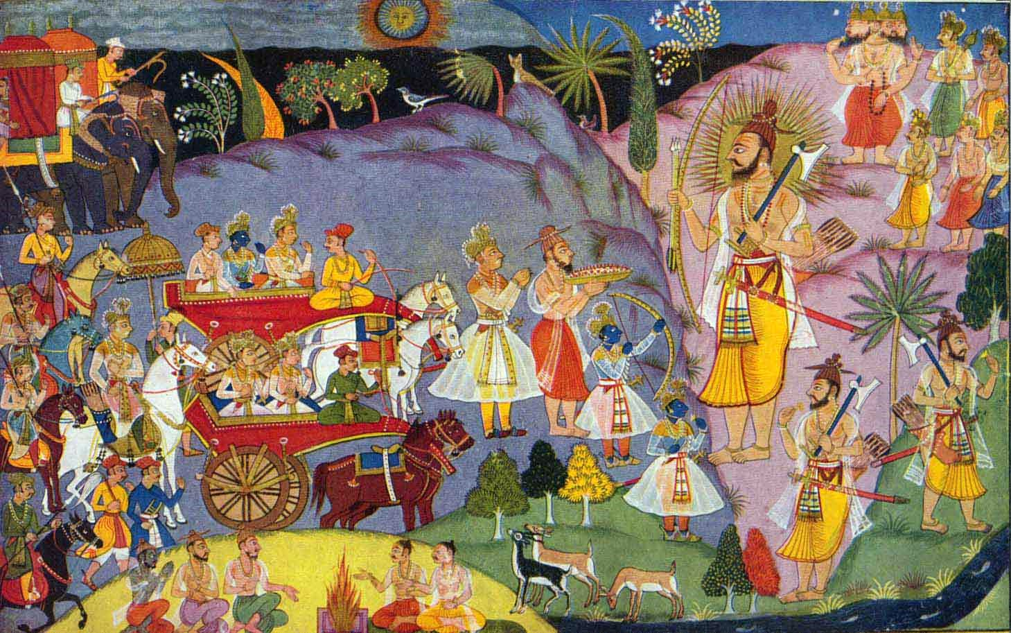 Prince of Wales Museum of Western India, Folder VII, Meeting of Rama and Parasurama, Published by the Trustees, 1968. Scan by FWP, Sept. 2001. "The painting (size 24.8 x 15.9 cm) illustrates folio 76 of a large MS. of the Balakanda of Valmiki's Ramayana, painted by Manohar for one Acharya Jasavant, in V.S. 1706 (A.D. 1649) at Udaipur in Rajasthan. To the left are Rama and his brothers on chariots accompanied by Dasaratha, who rides a white horse, and numerous retainers. In the centre they are shown standing on the ground after dismounting. Opposite them is the gigantic form of Parasurama holding his axe and behind him are the gods, amongst whom Brahman is easily recognizable. Below we again see Rama and Parasurama facing each other, and to the extreme right we observe the sage walking away, apparently satisfied. The artist has actually combined three scenes in one picture, namely the marriage procession, the encounter between Rama and Parasurama, and finally Parasurama's departure."